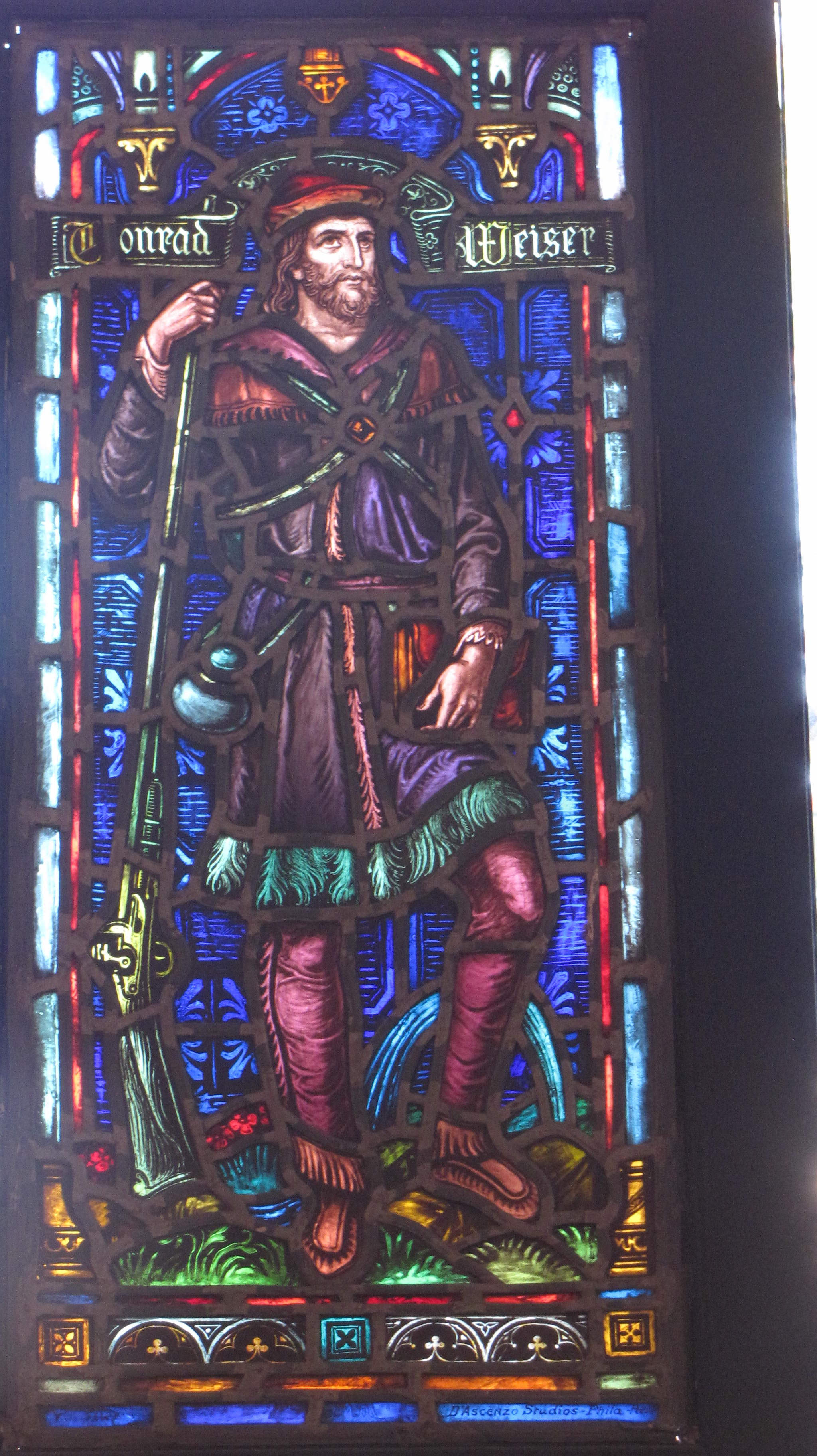 Stained glass window commemorating Cornad Weiser, Bronfman Center, Lutheran Theological Seminary at Philadelphia. Made by the d'Ascenzo Studios of Philadelphia, PA